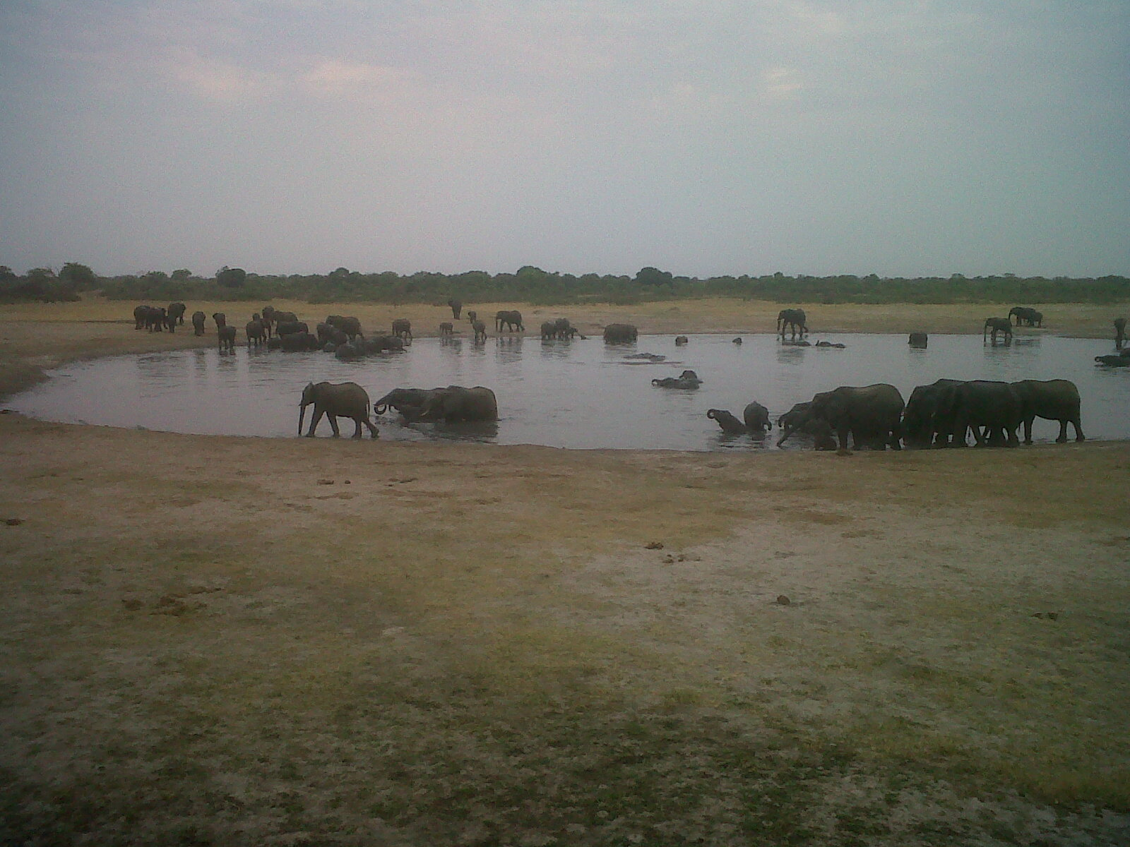 Elephants at Nyamandhlovu Pan, Hwange National Park